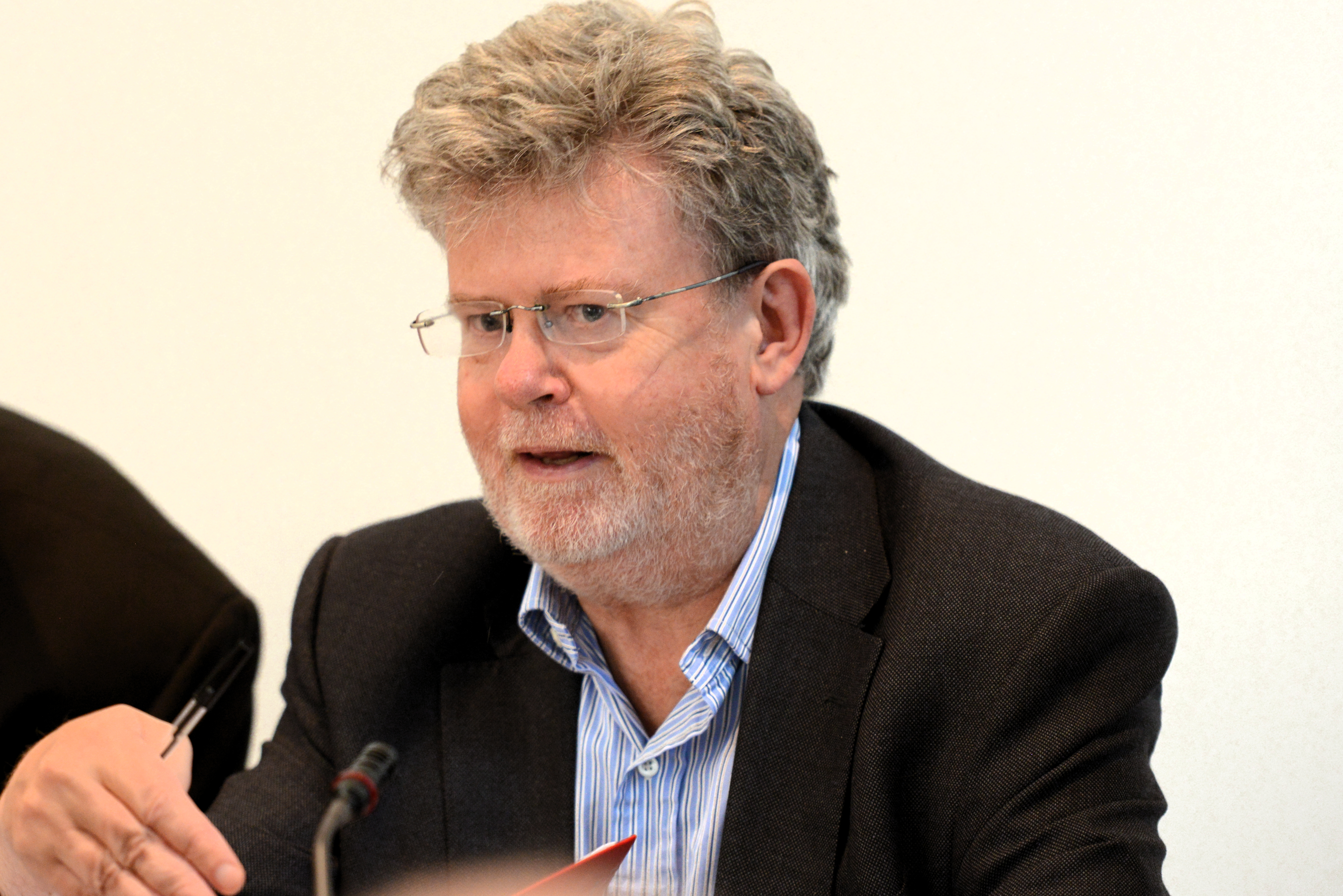 Institut d'études européennes et internationales du Luxembourg, Conference on The Politics of Virtue: the crisis of liberalism and the post-liberal future. A book manuscript by John Milbank and Adrian Pabst, Luxembourg, 17 and 18 October 2014. John Milbank, Professor in Religion, Politics and Ethics, University of Nottingham; Director, Centre of Theology and Philosophy, UK